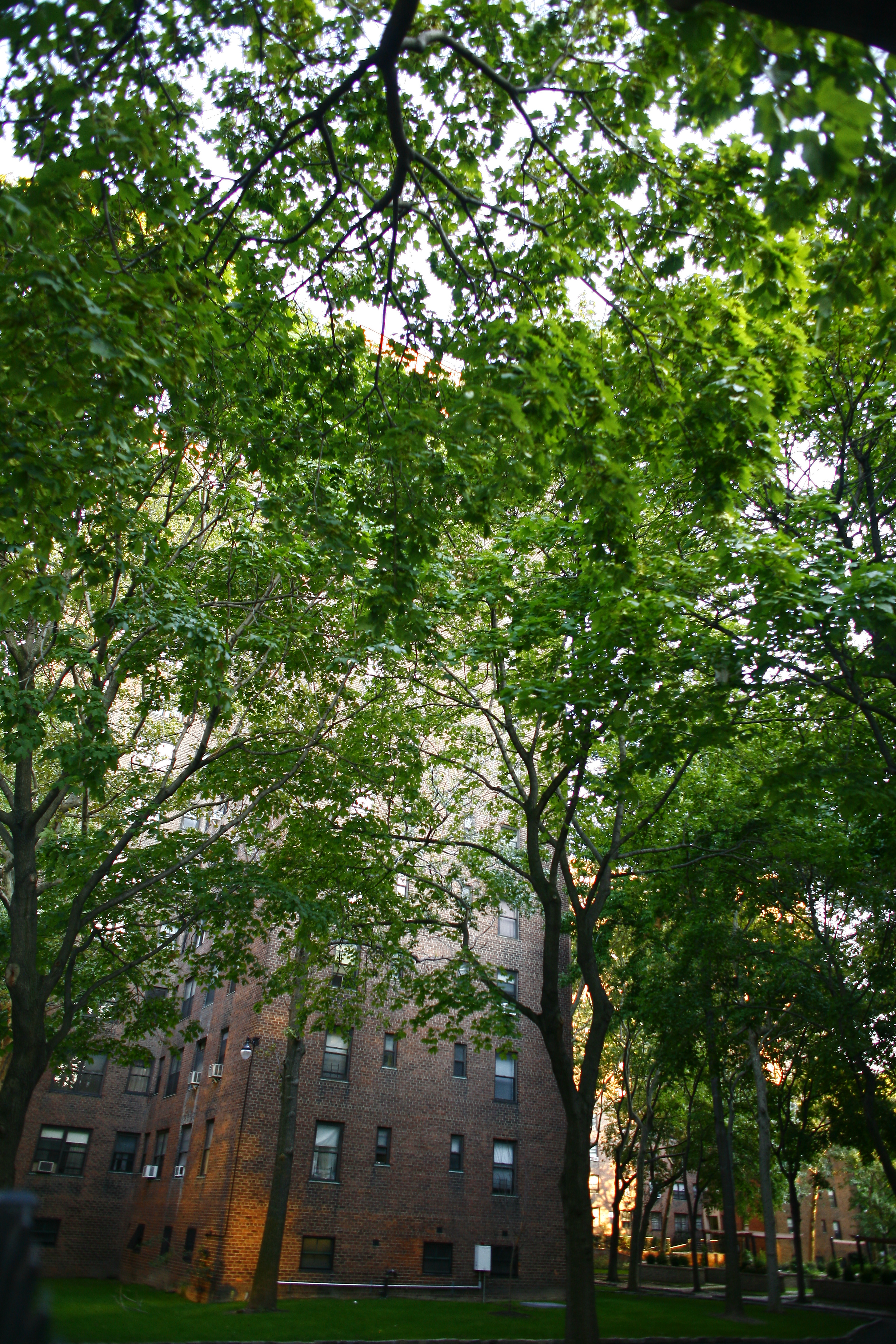 This photo is of Wikis Take Manhattan goal code B6, Riverton Houses.